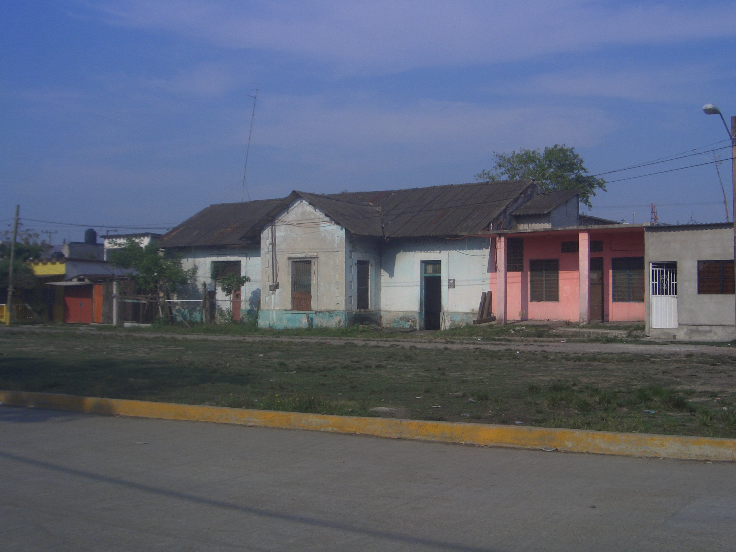 Old trein Station in Carlos A. Carrillo, Ver.